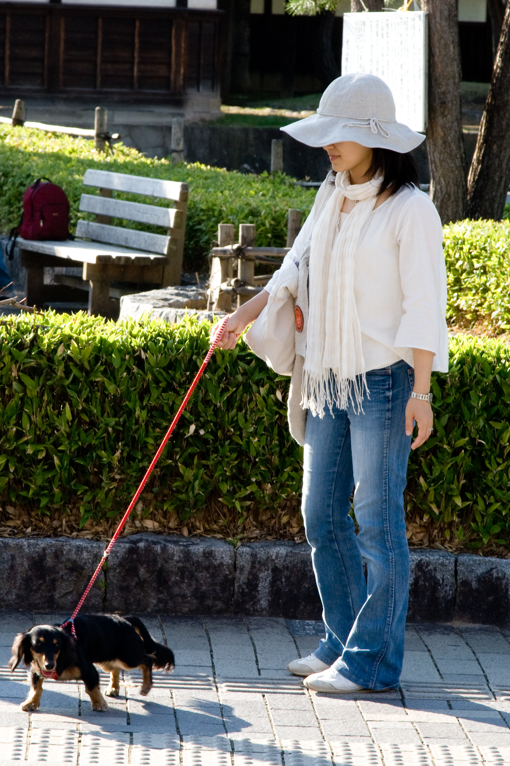 Taken in Takayama, Gifu, Japan.